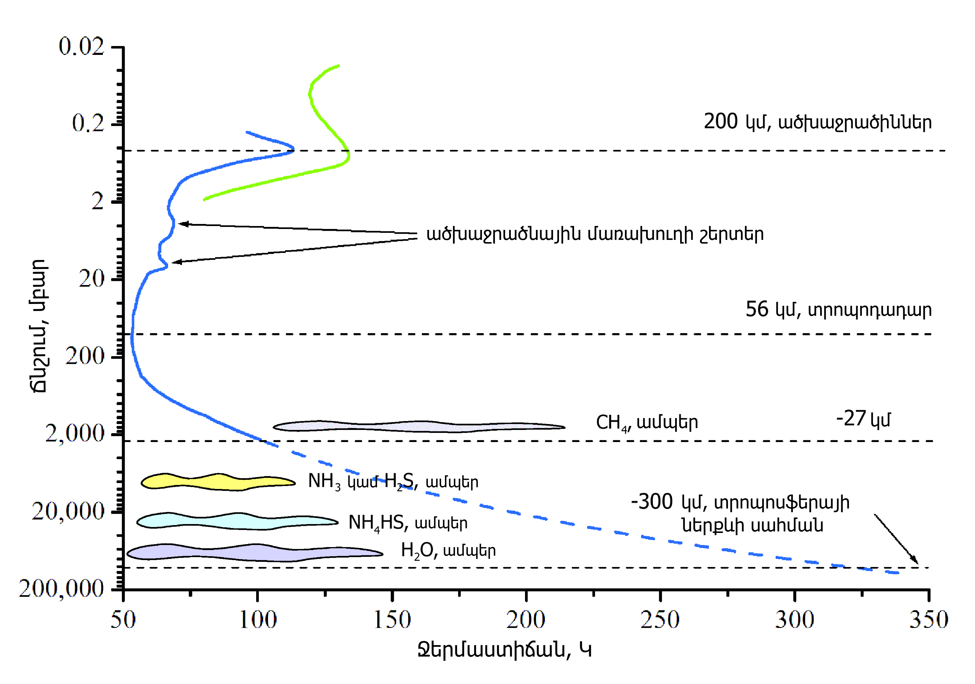 This graph shows temperature profile in the troposphere and in the lower stratosphere of Uranus. Heights are also indicated. The blue curve is from Lindal et al.[1]. The green curve is from Bishop et al.[2] The dashed blue curve is an extrapolation of the 1987 Lindal et al. data[1] using a constant lapse rate of 0.82 K/km. The graph also shows locations of the main cloud and haze layers according to 1990 Bishop et al.[2], Atreya et al.[3] and dePater et al. [4]